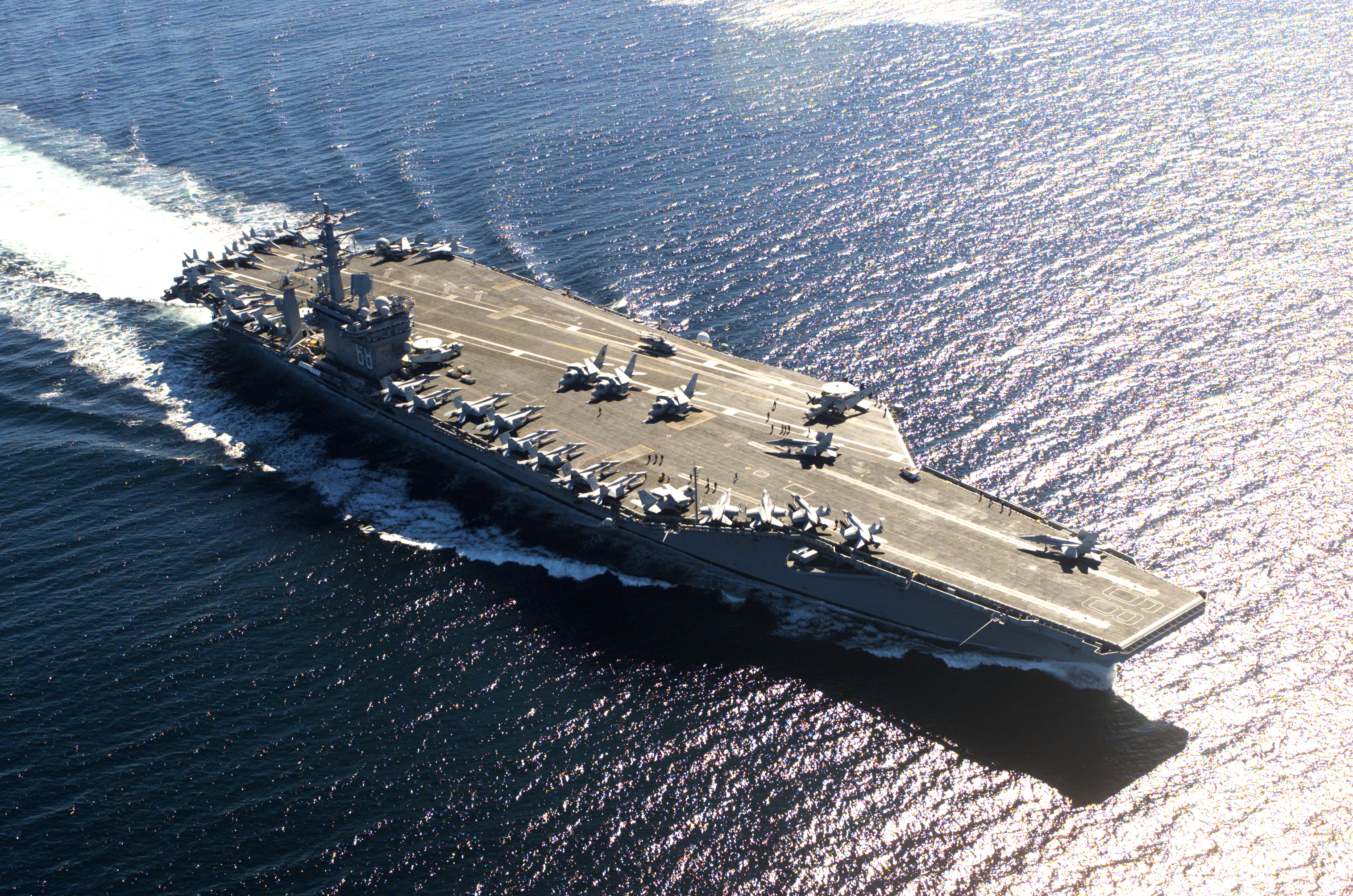 USS Nimitz (CVN-68), a US Navy aircraft carrier. Photo is from after her 1999-2001 refit.